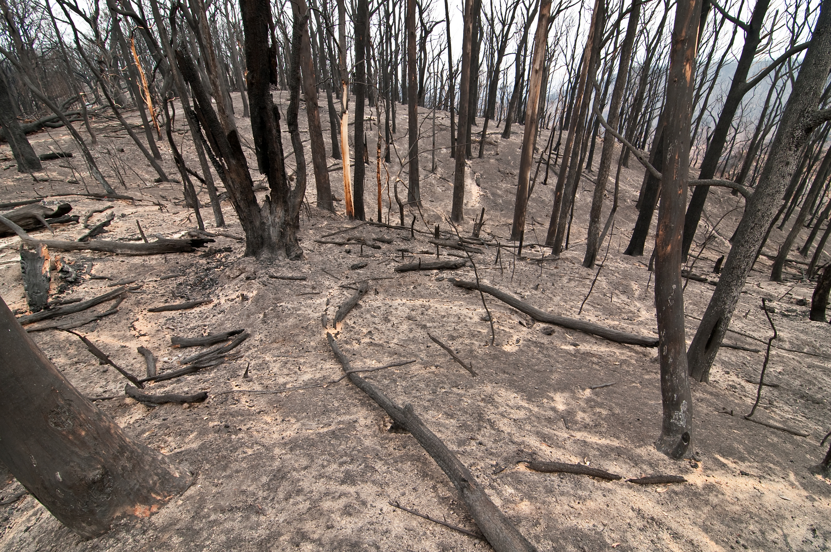 CSIRO is a participating agency in the Bushfire Cooperative Research Centre which has been looking at the key issues in the February 2009 bushfires. The CRC's Bushfire Research Task Force includes researchers from various state fire agencies and research organisations with expertise in building analysis, human behaviour, community education, bushfire behaviour, fire weather, and fire investigation. The purpose of the research is to provide fire and land management agencies with independent analyses of the factors surrounding the Victorian fires. CSIRO researchers from the Bushfire Dynamics and Applications Group, the Bushfire Urban Design project and the Remote Sensing team, will be involved with two areas of research: strategic fire behaviour - how the fires moved across different landscapes and different vegetation and under variable weather conditionsbuilding (infrastructure) and planning issues - patterns of loss and patterns of survival of build